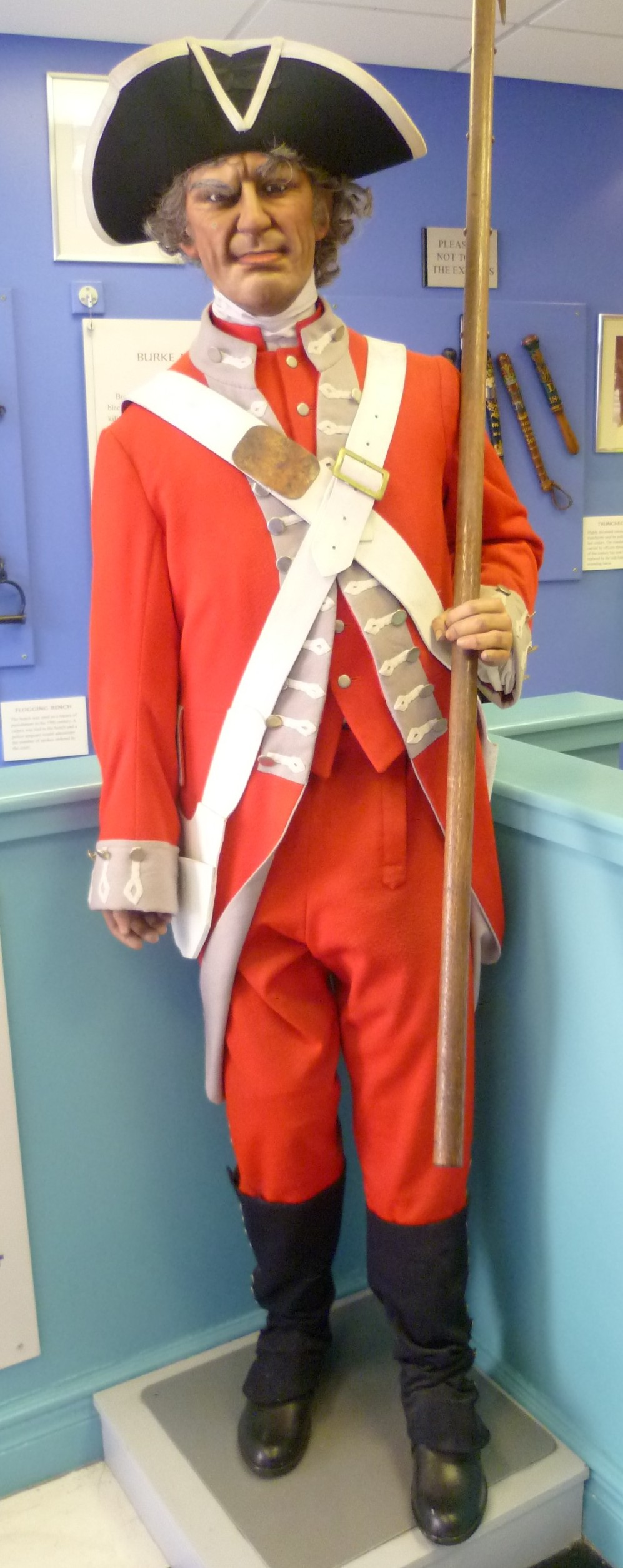 Edinburgh Town Guard uniform in the High Street Police Museum